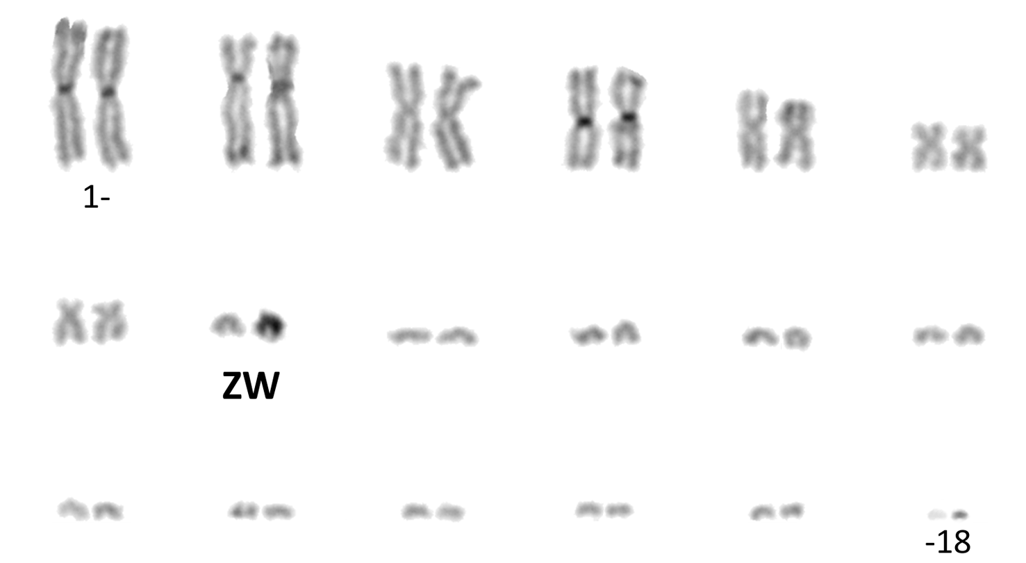 C-banded karyotype of female Gila monster (Heloderma suspectum). 2n=36, consisting of 7 pairs of large to medium-sized metacentric chromosomes and 11 pairs of small acrocentric chromosomes.